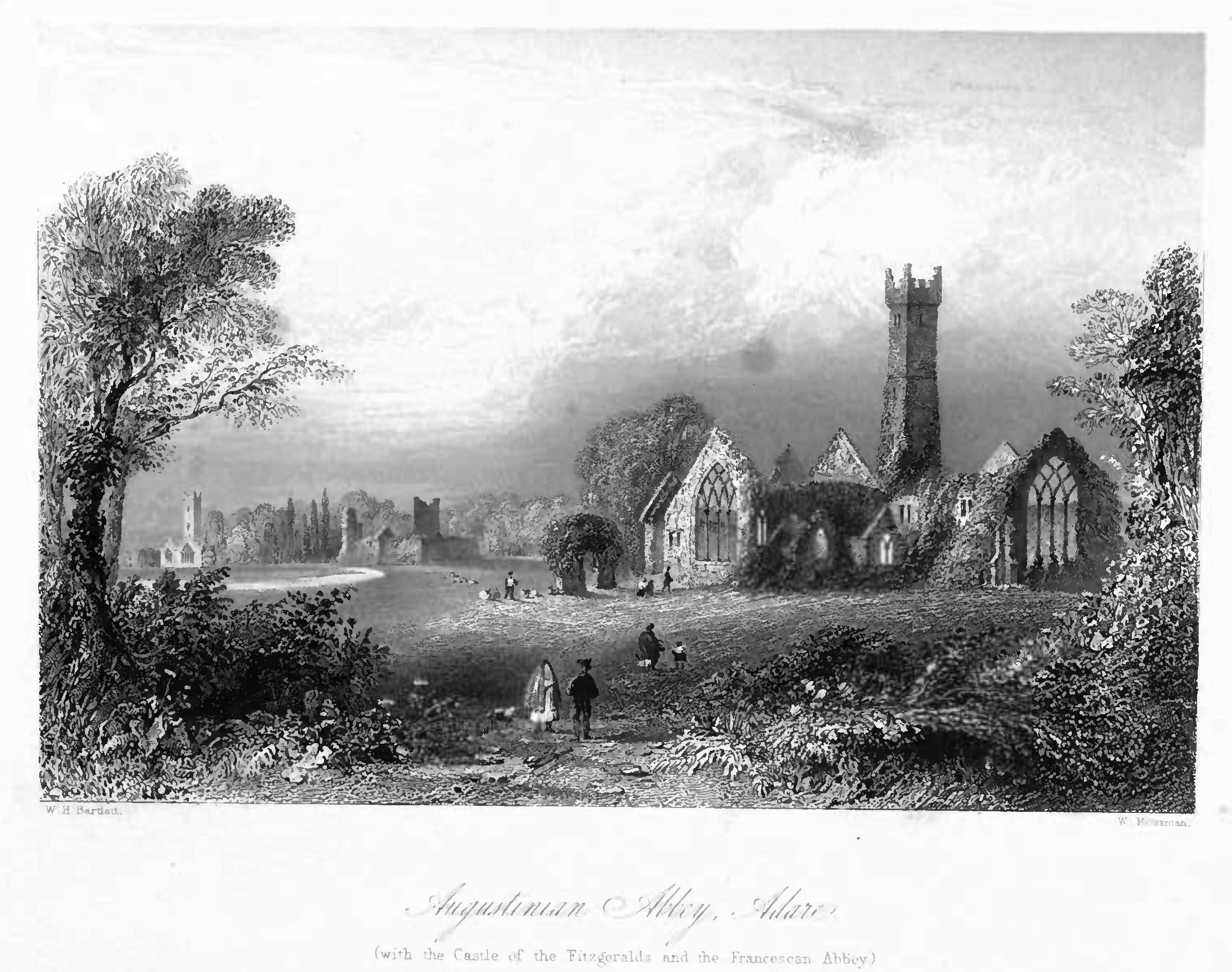 Adare Abbey, Bartlett, W. H. (William Henry), 1809-1854. Augustinian Friary left, Castle middle, Franciscan Friary right